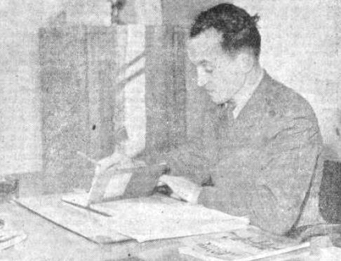 Jože Ožbolt (1922-2018), Slovene general and partisan